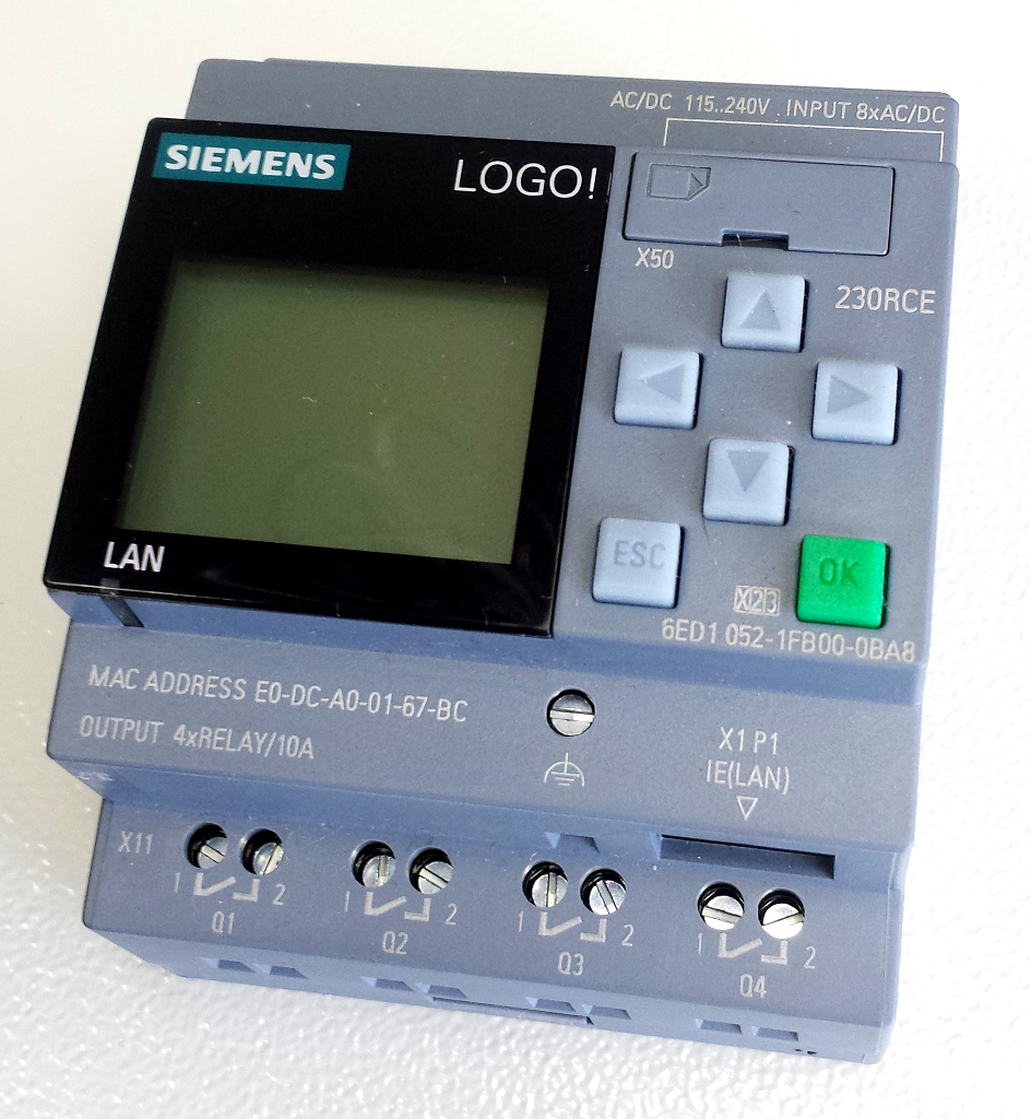 Siemens Logo version 8